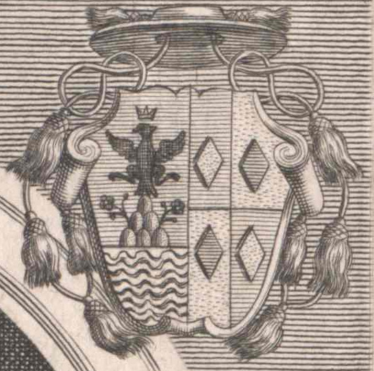 Coat of arms of cardinal Antonio Banchieri